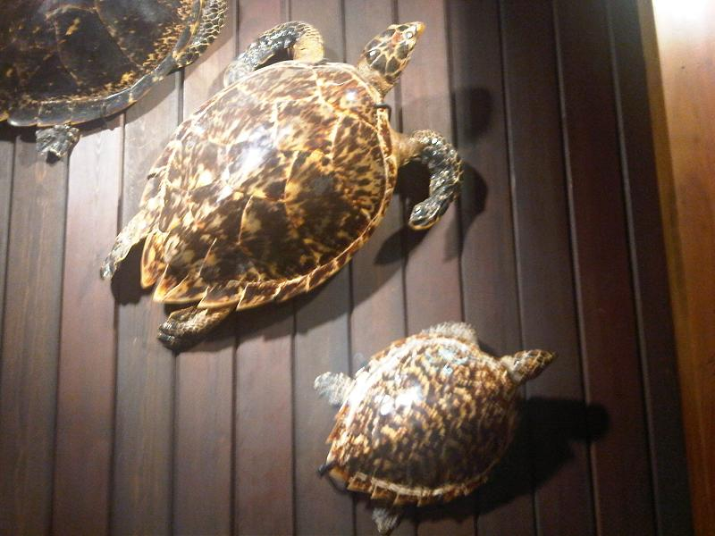 Hawksbill sea turtles (Eretmochelys imbricata) in Grant Museum of Zoology, London, England.